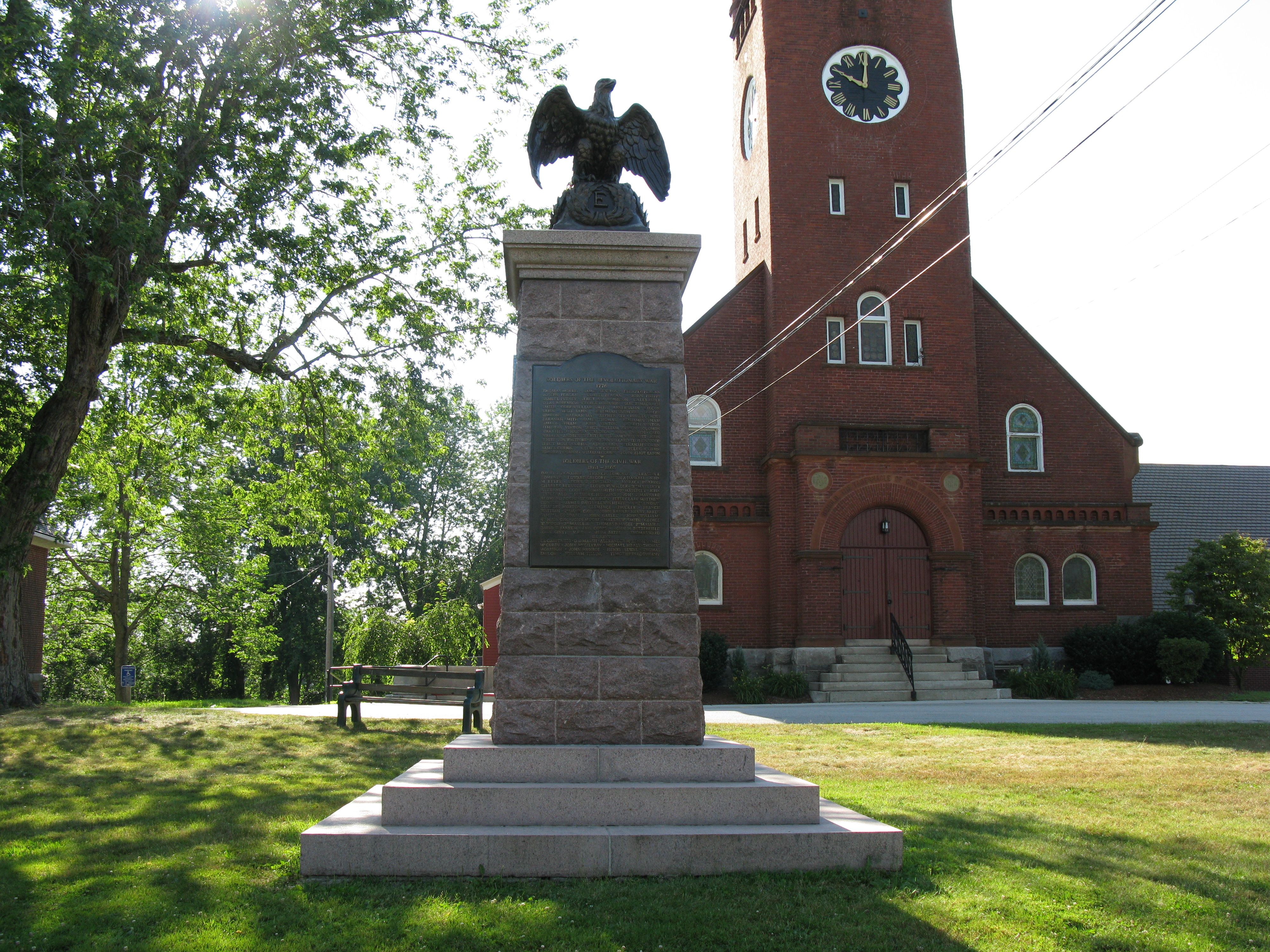 War Monument by John Wilson Dudley Massachusetts, Black Tavern Historical Society